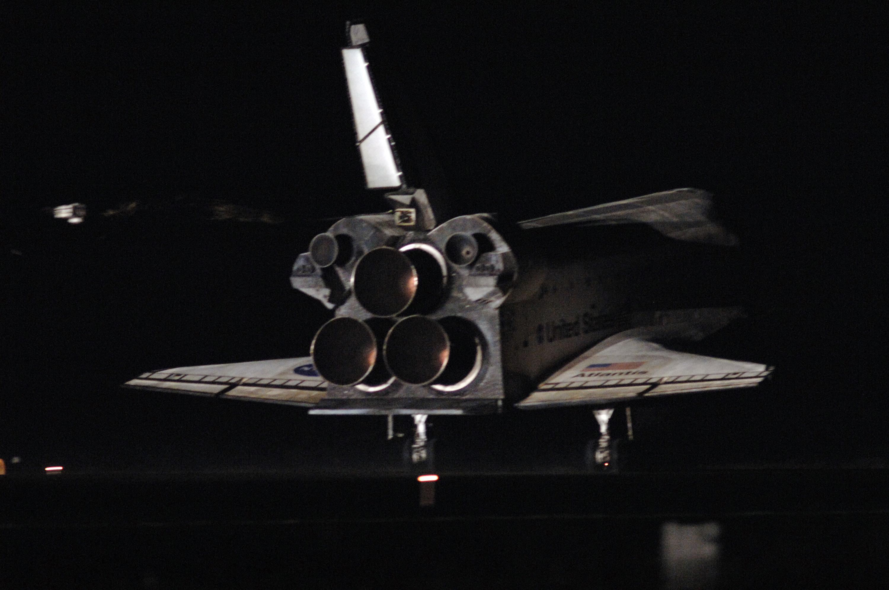 KENNEDY SPACE CENTER, FLA. – Lit from behind, Atlantis is close to touchdown on Runway 33 at NASA's Kennedy Space Center, concluding mission STS-115. Aboard are Commander Brent Jett, Pilot Christopher Ferguson, and Mission Specialists Joseph Tanner, David Burbank, Heidemarie Stefanyshyn-Piper and Steven MacLean, who represents the Canadian Space Agency. During the mission, Tanner, McLean, Burbank and Piper completed three spacewalks to attach the P3/P4 integrated truss structure to the International Space Station. Main gear touchdown was at 6:21:30 a.m. EDT. Nose gear touchdown was at 6:21:36 a.m. and wheel stop was at 6:22:16 a.m. At touchdown -- nominally about 2,500 ft. beyond the runway threshold -- the orbiter is traveling at a speed ranging from 213 to 226 mph. Atlantis traveled 4.9 million miles, landing on orbit 187. Mission elapsed time was 11 days, 19 hours, six minutes. This is the 15th night landing at KSC and the 23rd night landing overall. Photo credit: NASA/Mike Kerley